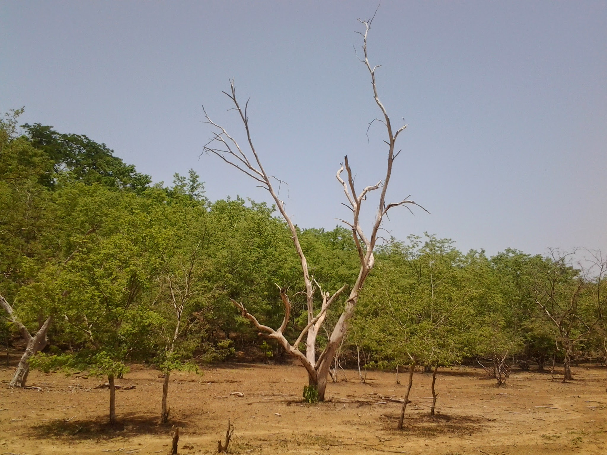 Great view from the Mole National Park.